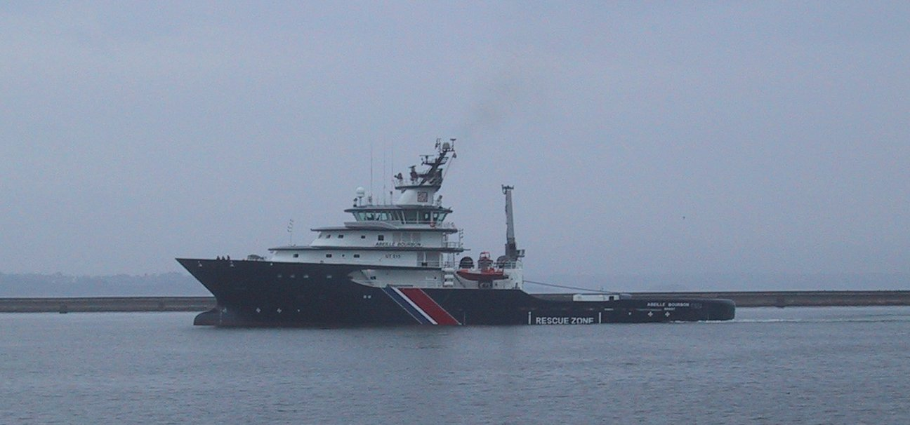 The "Abeille Bourbon" ship is a french tug launch in april 2005 and based in Brest.